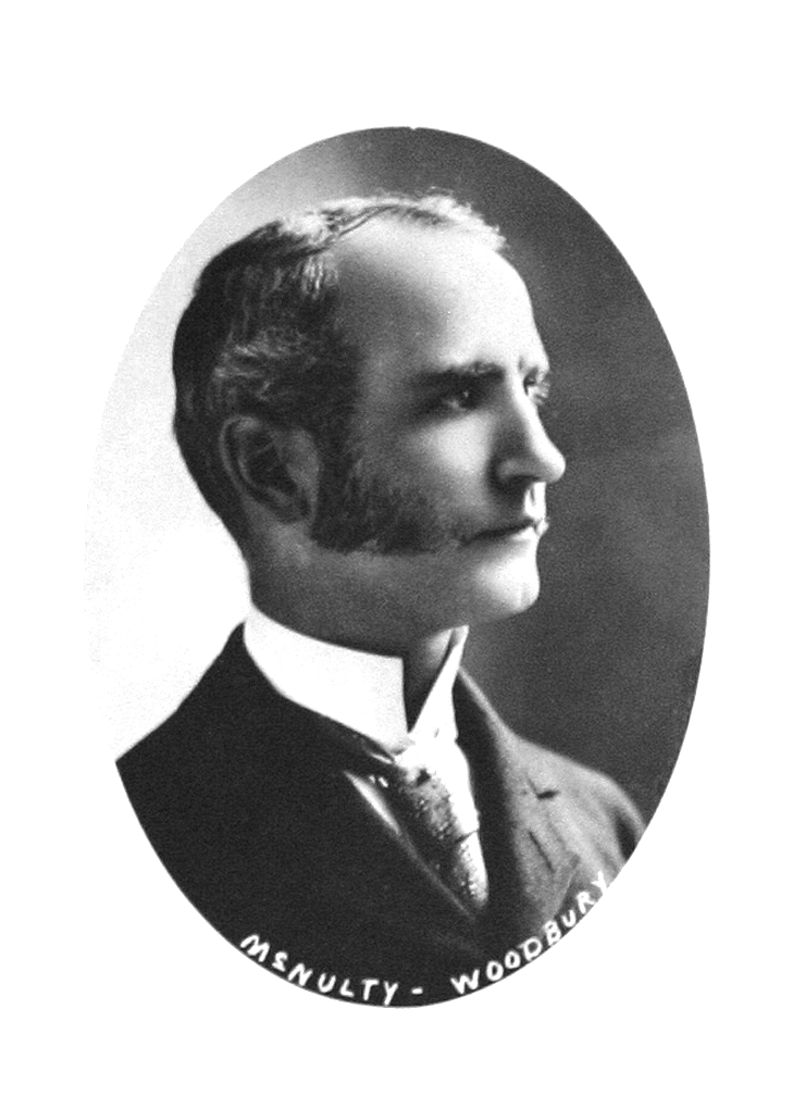 Official late 19th century photograph of Iowa State Representative Francis McNulty, Jr., who was a member of the Iowa General Assembly from Woodbury County from 1896-1898. Other information The original print is housed in the collections of the State Historical Society of Iowa at Des Moines.